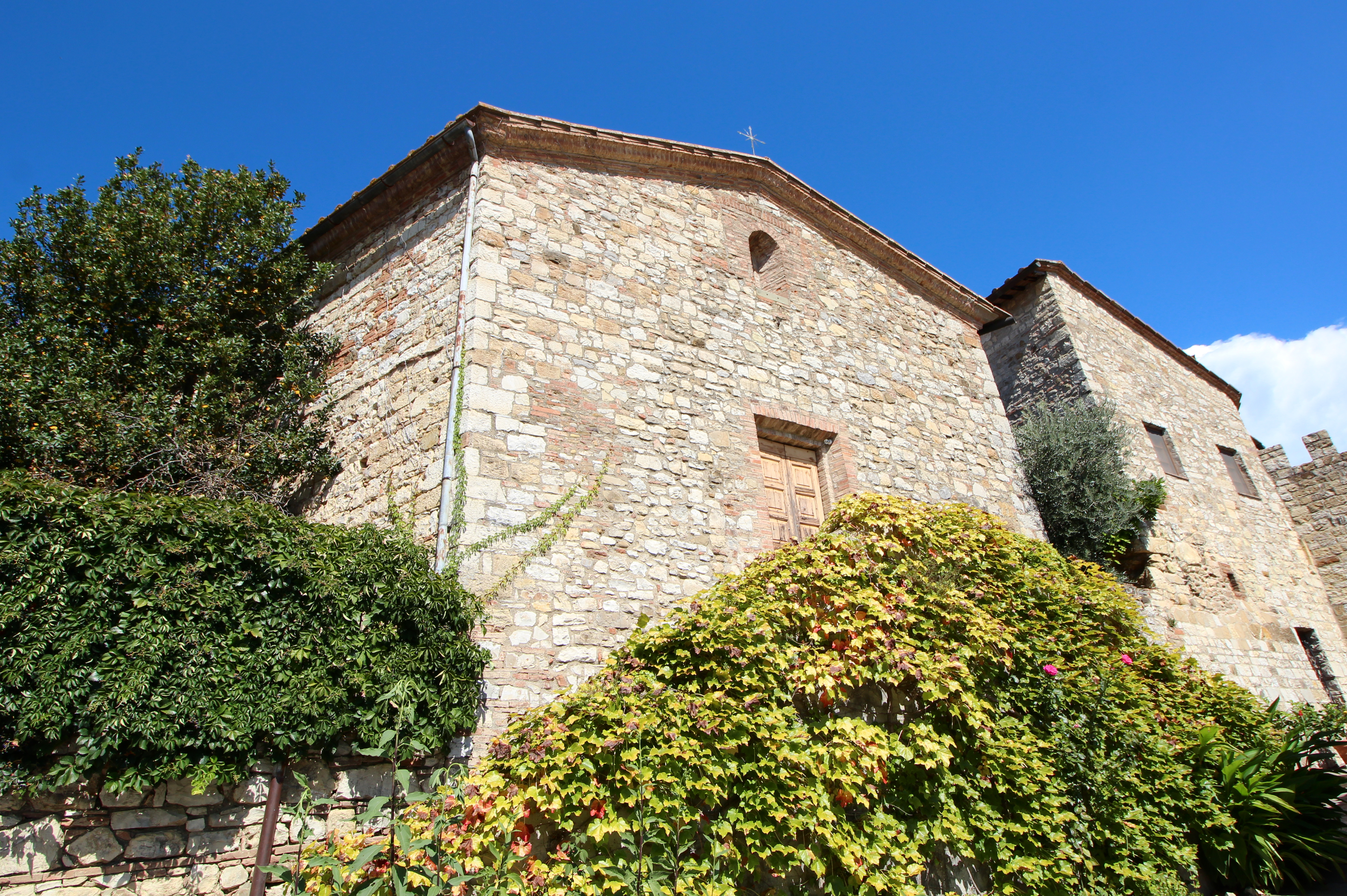 Church San Cristoforo, Lucignano, hamlet of Gaiole in Chianti, Province of Siena, Tuscany, Italy.